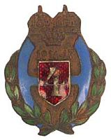 Cs. és kir. 4. huszárezred jelvénye (1917)